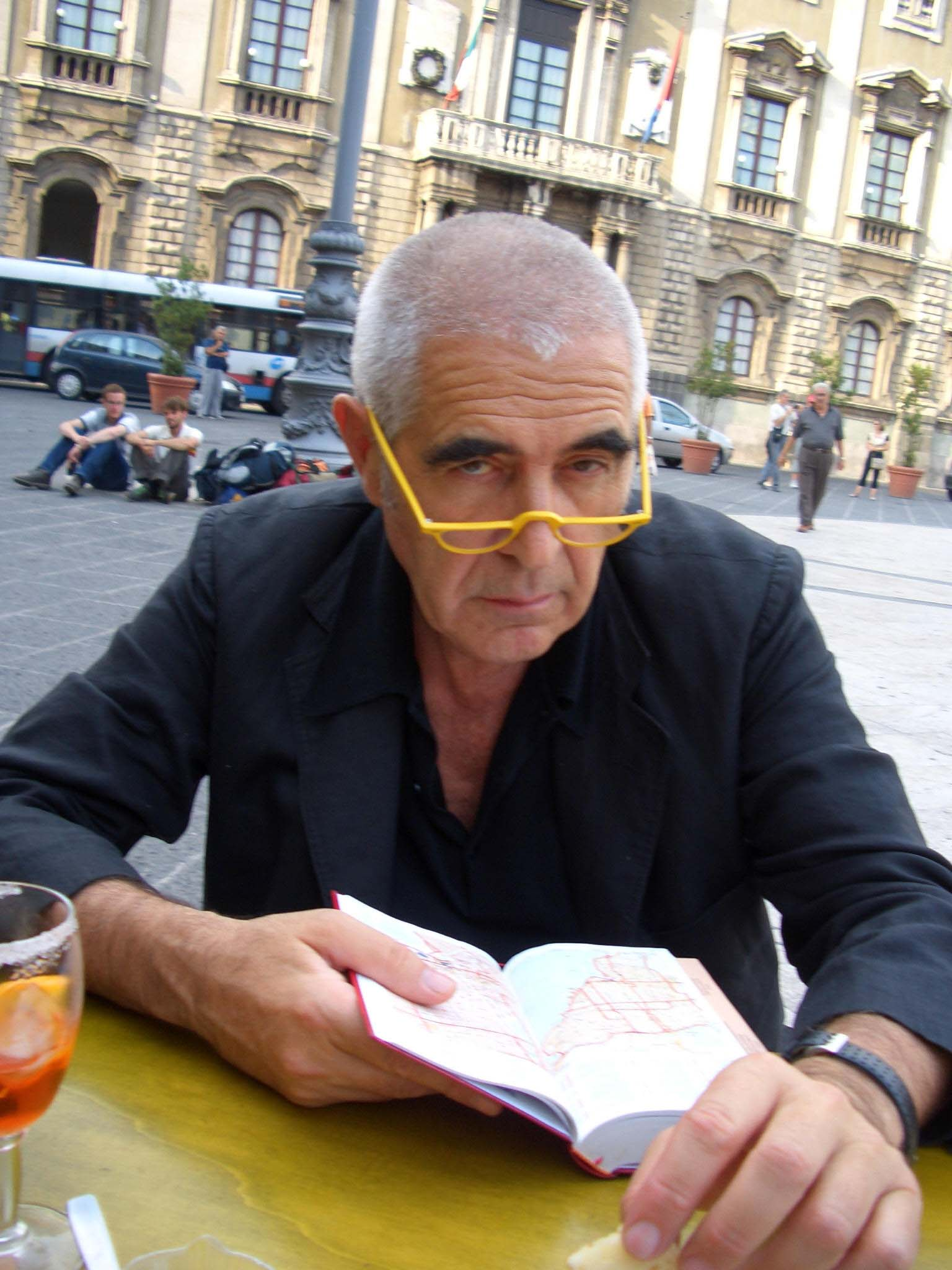 Portrait of Peter Noever